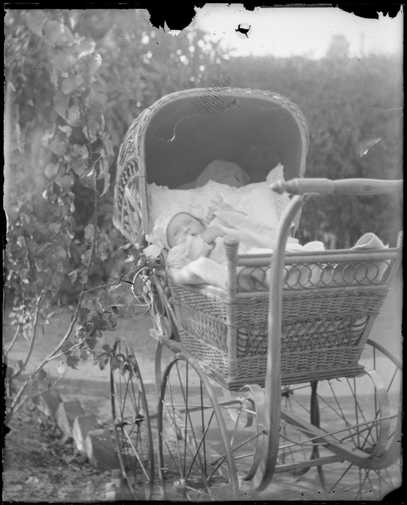 Booth, Abraham Valentine, 1867-1933 Title devised by cataloguer based on caption list.; Part of the collection: Yathella Park and the daily farm life and social events, Wagga Wagga Region, New South Wales, 1900-1930.; Condition: Scratched, emulsion damage and scratched.; Also available in electronic version via the Internet at: .au/nla.pic-vn4729071. Persistent URL .au/nla.pic-vn4729071